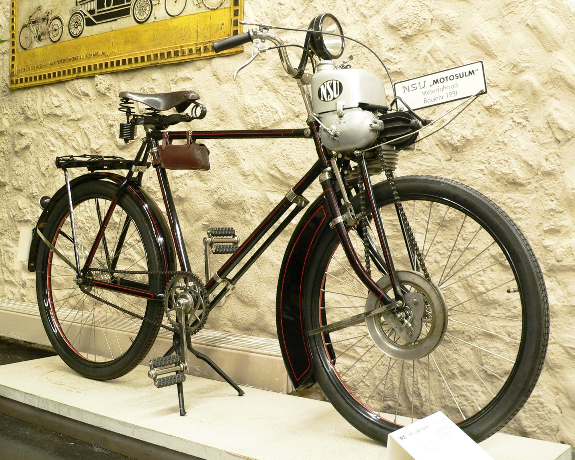 NSU Motosulm (from about 1931), photo taken at the Deutsches Zweirad- und NSU-Museum